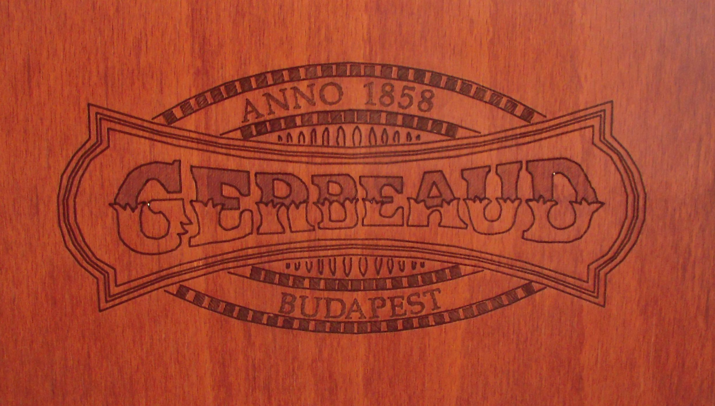 The "Gerbeaud" logo on the bag of one of the chairs in the cafe.